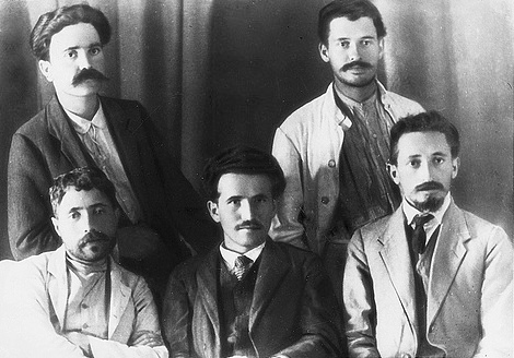 The editorial staff of "HaAhdut:" Yitzhak Ben-Zvi, David Ben Gurion, Yosef Chaim Brener, Hareuveni, I. Zerubavel.